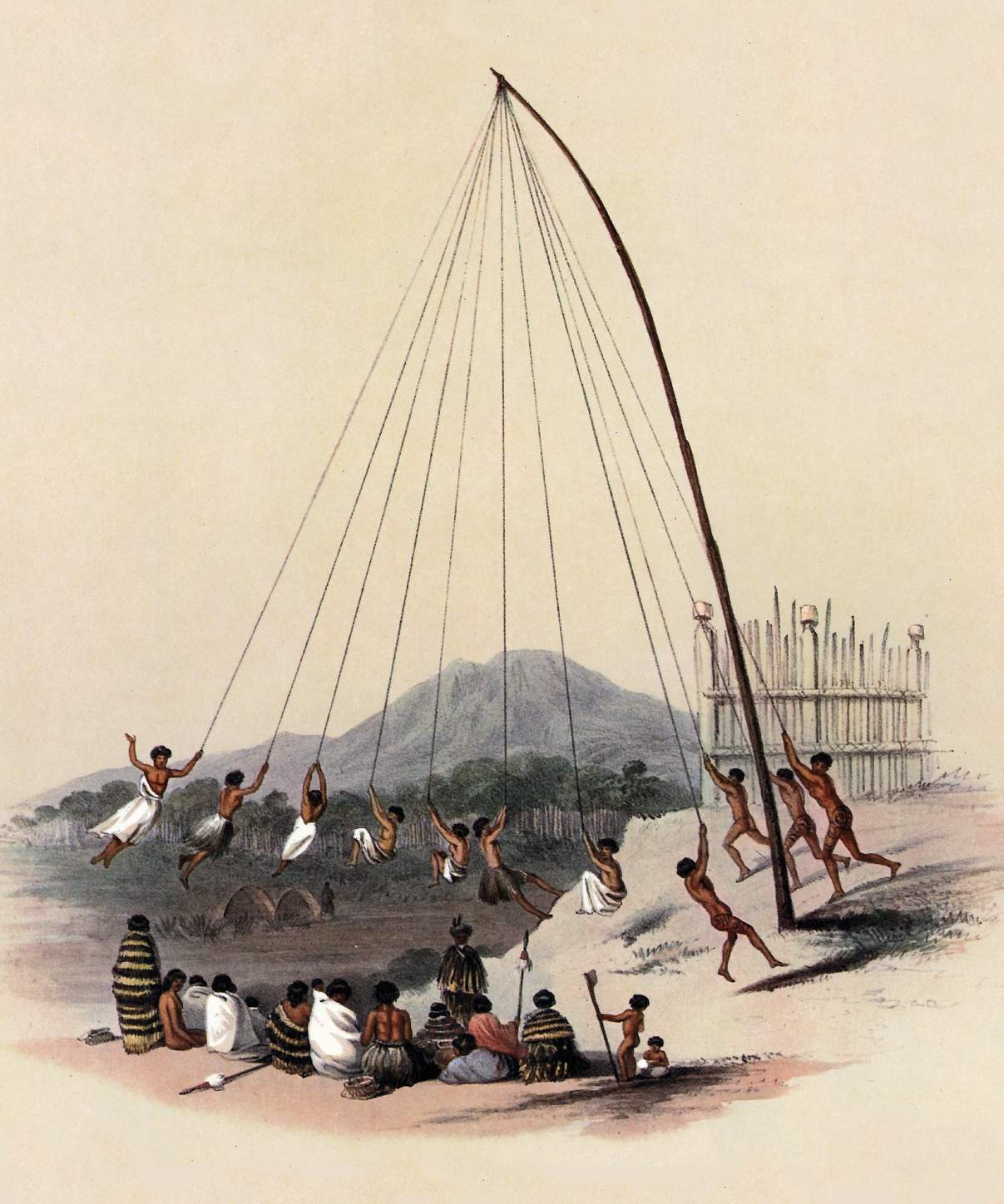 A group of Māori children on a morere swing, a tall pole with ropes attached from its top, flying out over a bank, watched by a group of seated adults and children. The palisades of a pa are in the right background and a low hill in the distance. According to Simpson, P. (2000). Dancing Leaves: The story of the New Zealand cabbage tree: Tī Kōuka. Christchurch: Canterbury University Press. p. 160, the ropes for the morere were tī emi, ropes made by gathering together leaves or fibres of Cordyline australis (tī, cabbage tree). This part of the image cropped out, resized, tidied up.